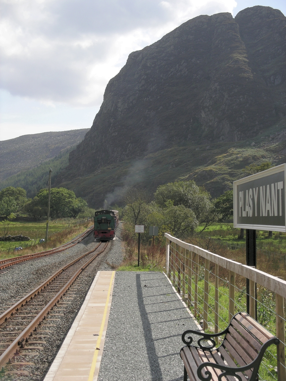 Welsh Highland Railway engine Mileniwn hauling a train towards Plas y Nant station, September 2005